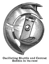 Shuttle and bobbin from an "oscillating shuttle" bobbin driver